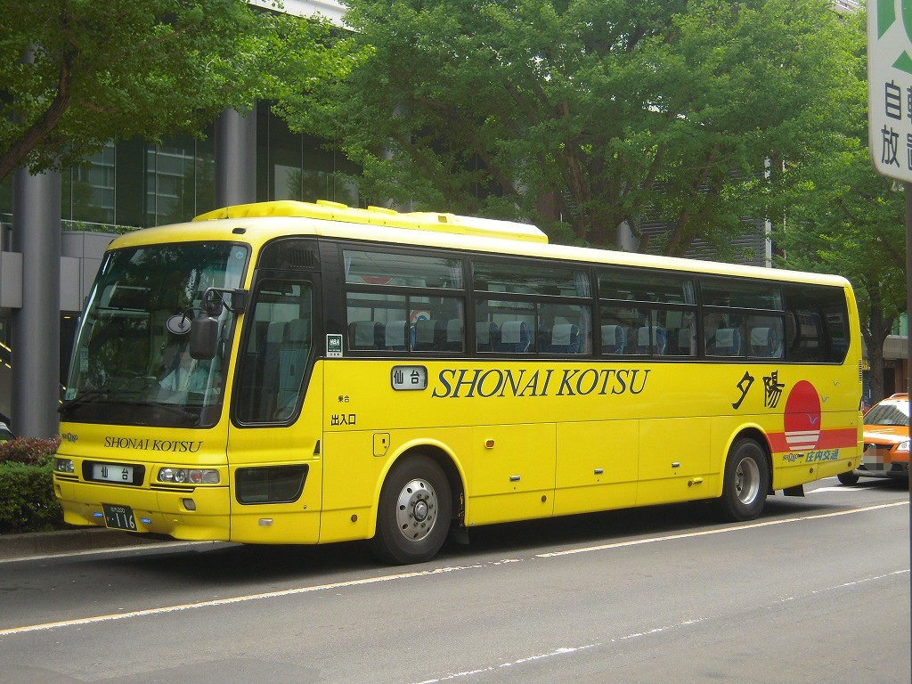 Shonai kotsu Mitsubishi Fuso Aero bus (PJ-MS86JP),from Ayashi kanko busHighway bus "You&He"(Sendai-Tsuruoka,Sakata,Honjo)